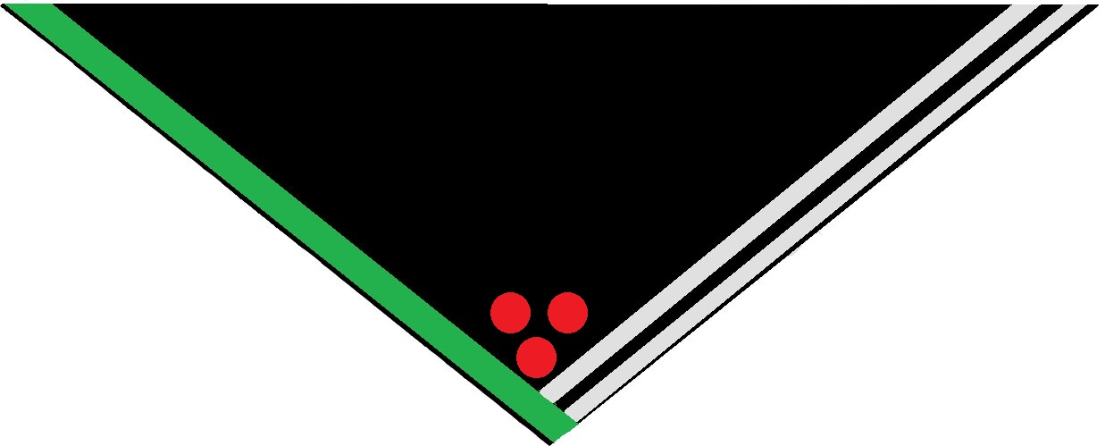 Хустина з 3 цяпками